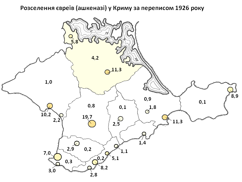 Percentage of ashkenazi jews in Crimea according to 1926 census